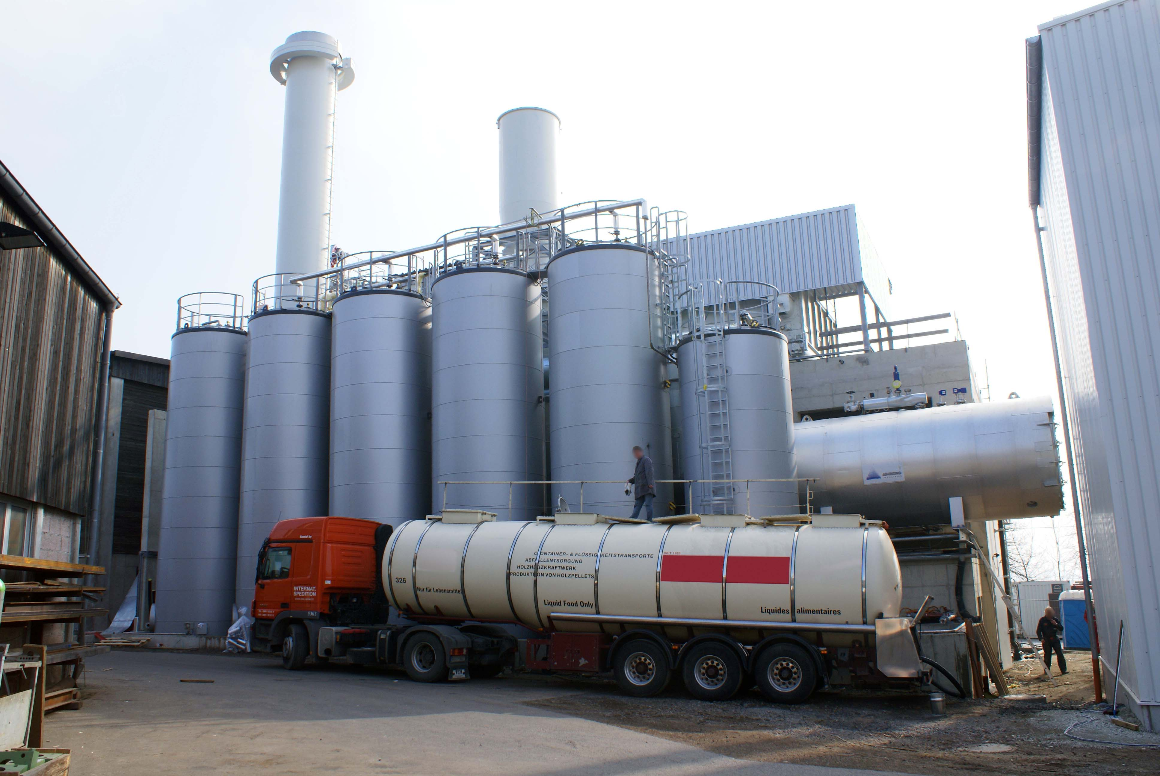 Palm oil tanks of a power plant are filled. (location ?)